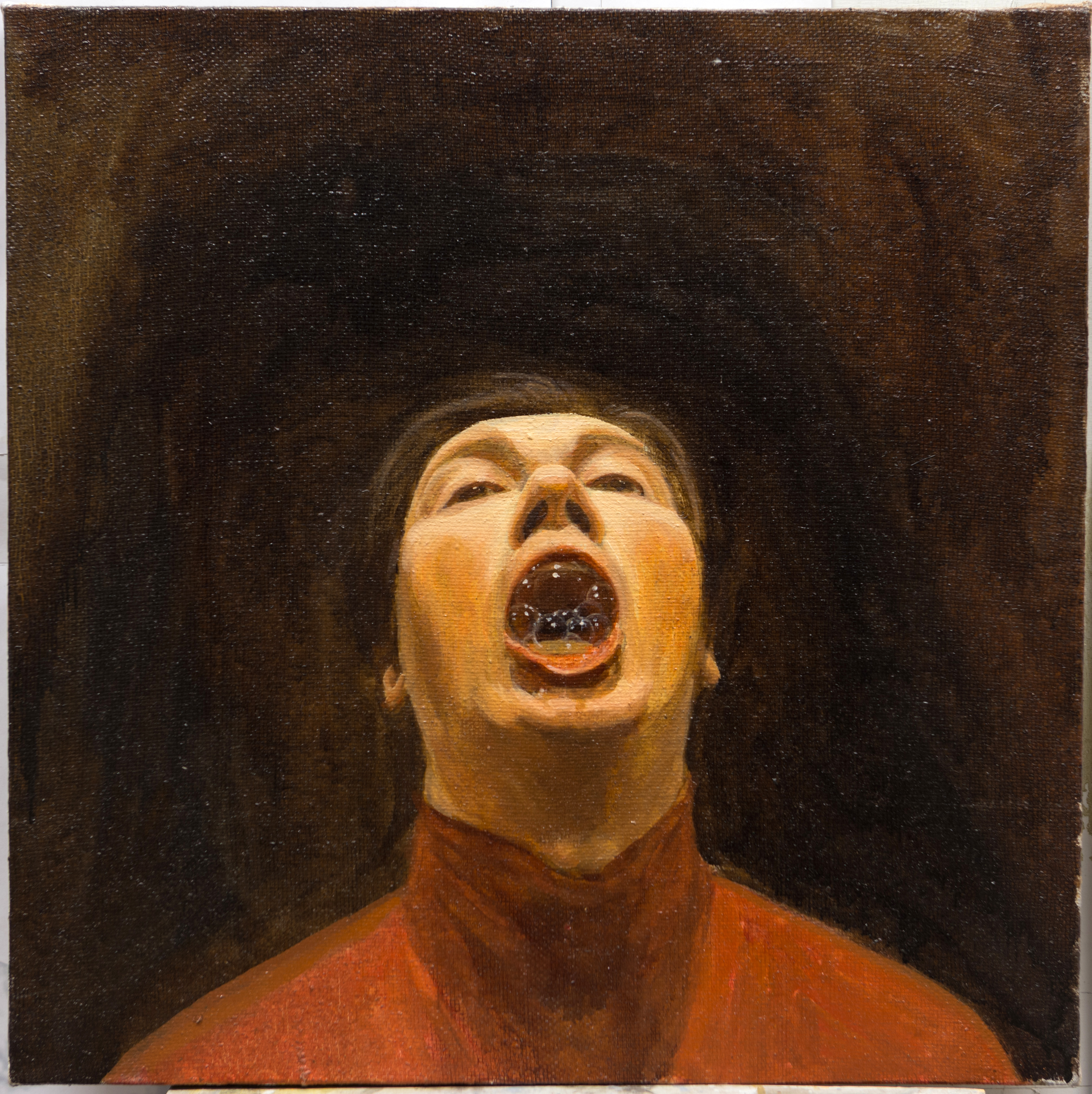 oil on canvas, 50x50cm